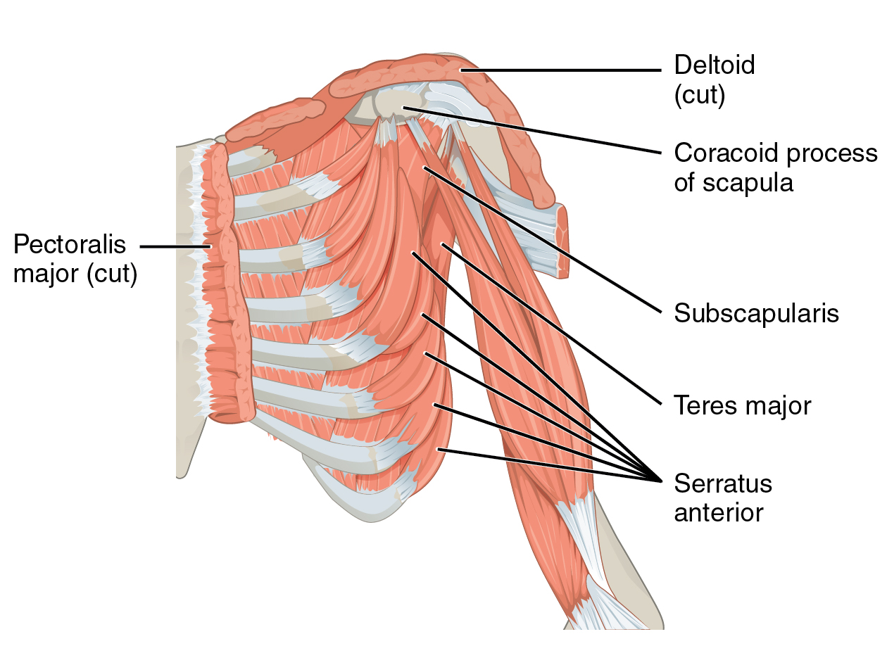 Caption: a, c) The muscles that move the humerus anteriorly are generally located on the anterior side of the body and originate from the sternum (e.g., pectoralis major) or the anterior side of the scapula (e.g., subscapularis). (b) The muscles that move the humerus superiorly generally originate from the superior surfaces of the scapula and/or the clavicle (e.g., deltoids). The muscles that move the humerus inferiorly generally originate from middle or lower back (e.g., latissiumus dorsi). (d) The muscles that move the humerus posteriorly are generally located on the posterior side of the body and insert into the scapula (e.g., infraspinatus). URL: Other versions: Original